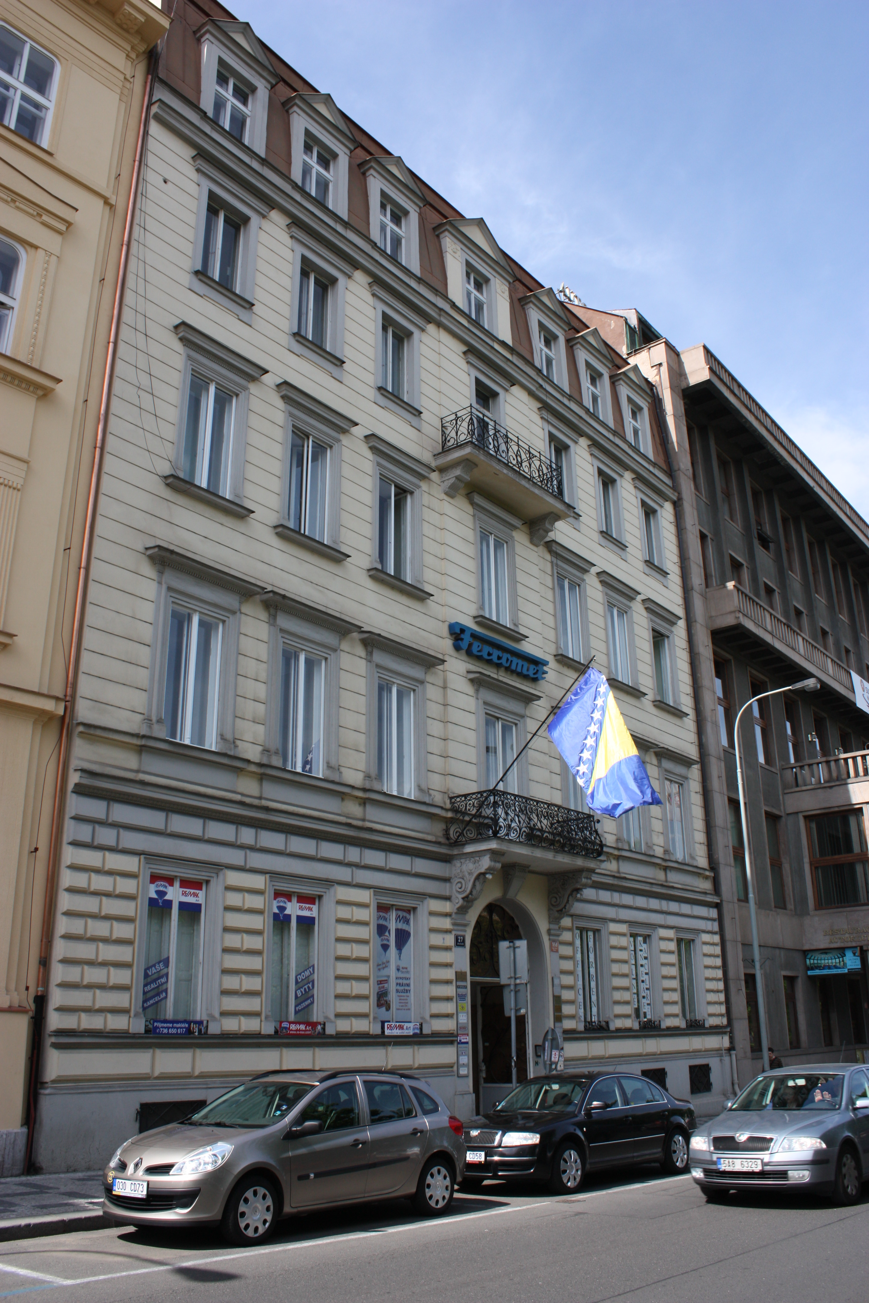 Embassy of Bosnia and Herzegovina, Opletalova 958/27, Praha 1 – New Town.